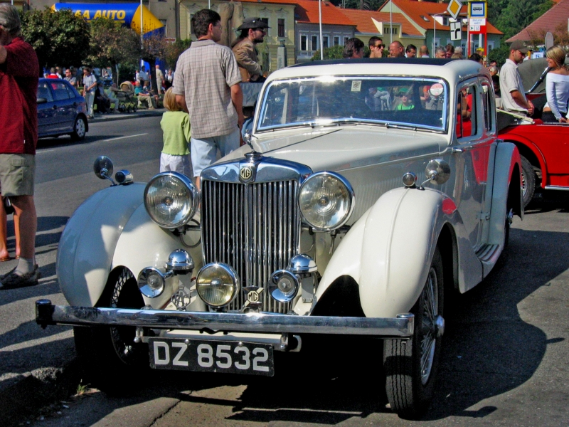 (DVLA) 2366 cc first registered 18 March 1938